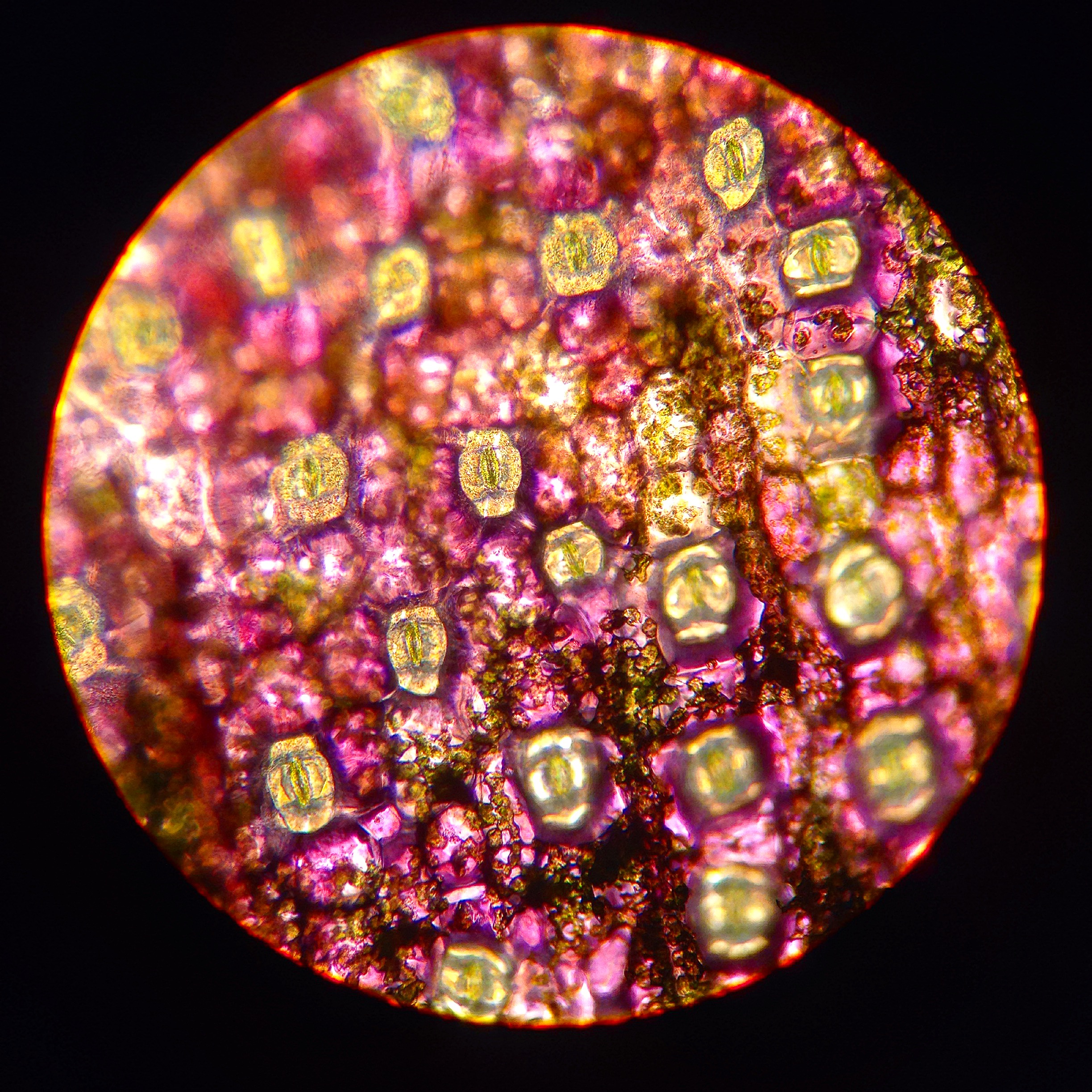 this is a photo of cuticle of setcreasea purpurea.